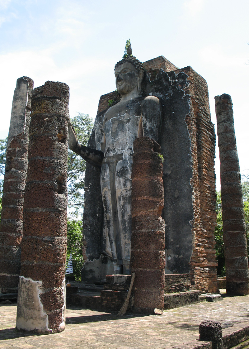 Wat Taphan Hin ("Stone bridge monastery") lies in the mountains to the west of Sukhothai National Historical Park, Thailand.